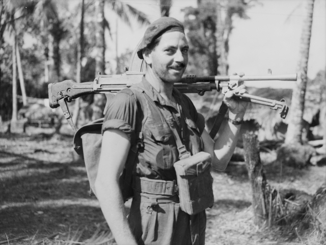 MOROKAIMORO, BOUGAINVILLE, 1945-06-12. TPR B. CAMPBELL, A TROOP, 2/8 COMMANDO SQUADRON, BEARDED AND WEARY ON ARRIVAL AT SQUADRON HEADQUARTERS AFTER AN EIGHT DAY PATROL INTO JAPANESE HELD TERRITORY.